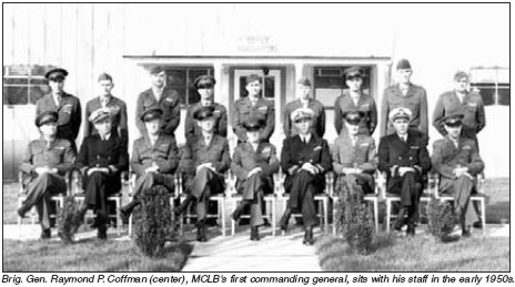 Brigadier General Raymond P. Coffman, first commanding officer of Marine Corps Logistics Base Albany and his staff. Source [1] from [2]